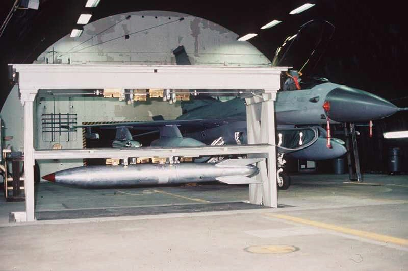 Weapons Storage and Security System (WS3) vault holding a B61 nuclear bomb (possibly inert training version). The vault is within a Protective Aircraft Shelter (PAS), with a F-16 Fighting Falcon in the background.